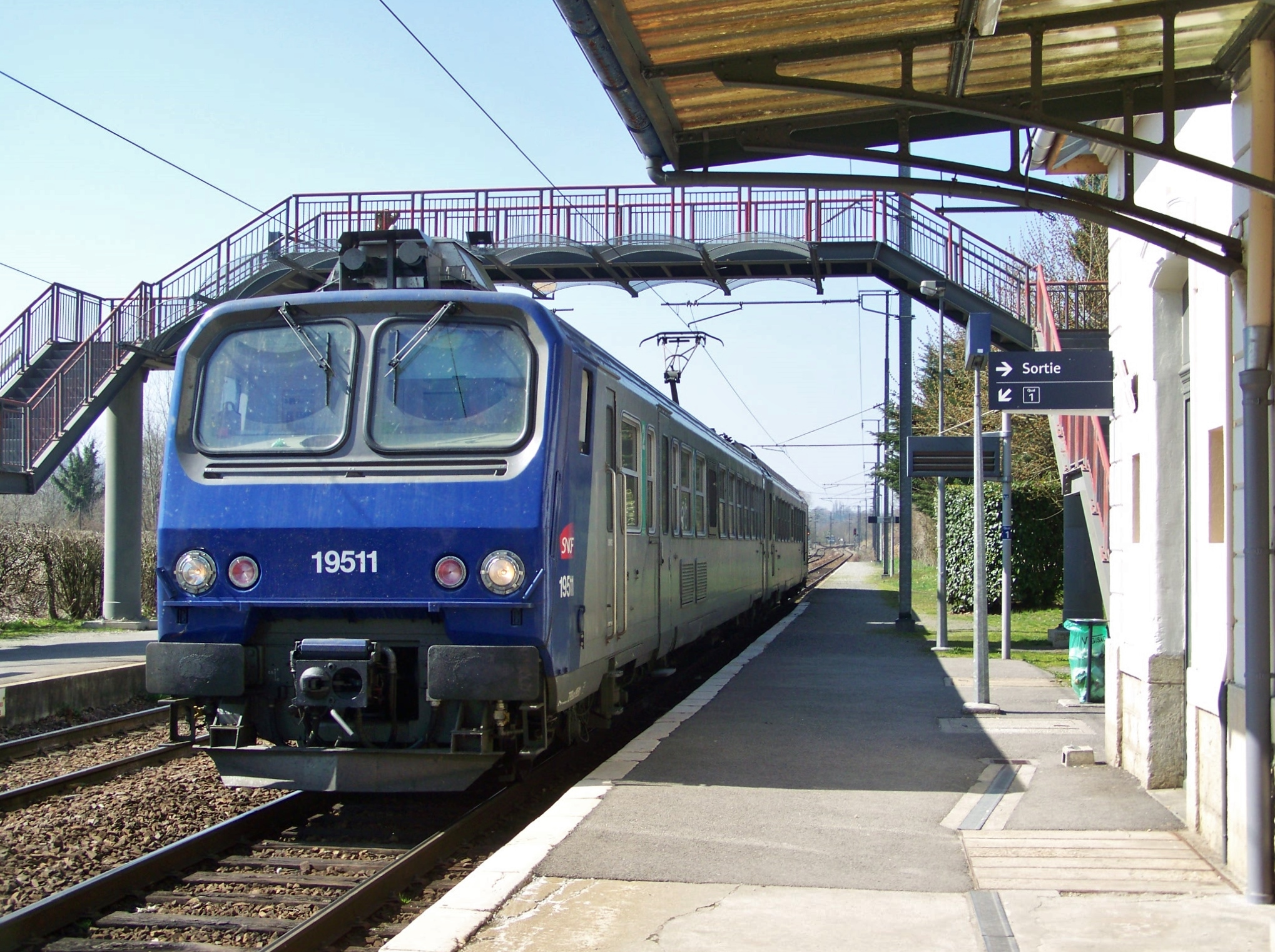 Sight of a SNCF Class Z 9500 coming from Lyon and bound for Chambéry is stopping at Pont-de-Beauvoisin railway station in Isère, France.